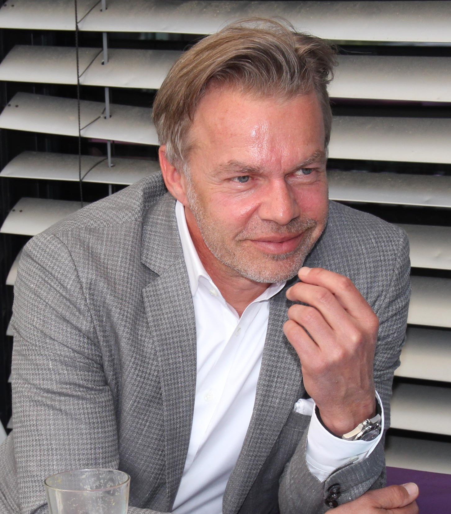 Thomas Pupp IMG_2236